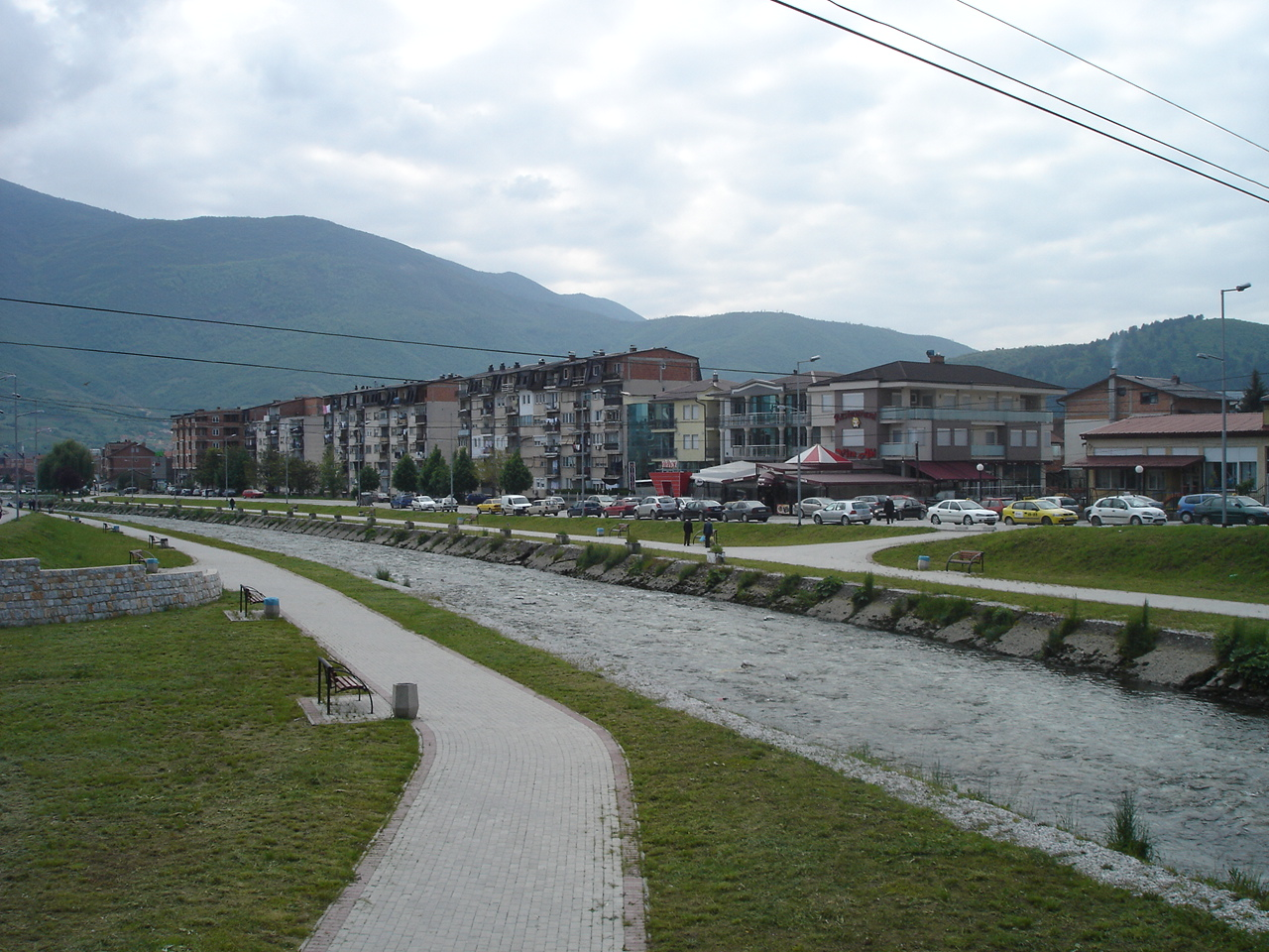 Dutlok neighborhood in Gostivar, Macedonia